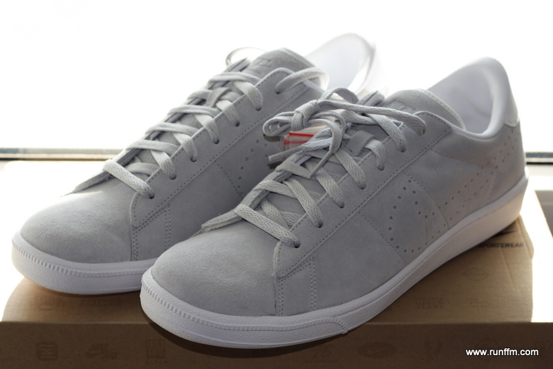 These are the Nike Zoom Tennis by Fragment Design Hiroshi Fujiwara